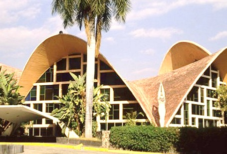 Felix Casino de la Selva